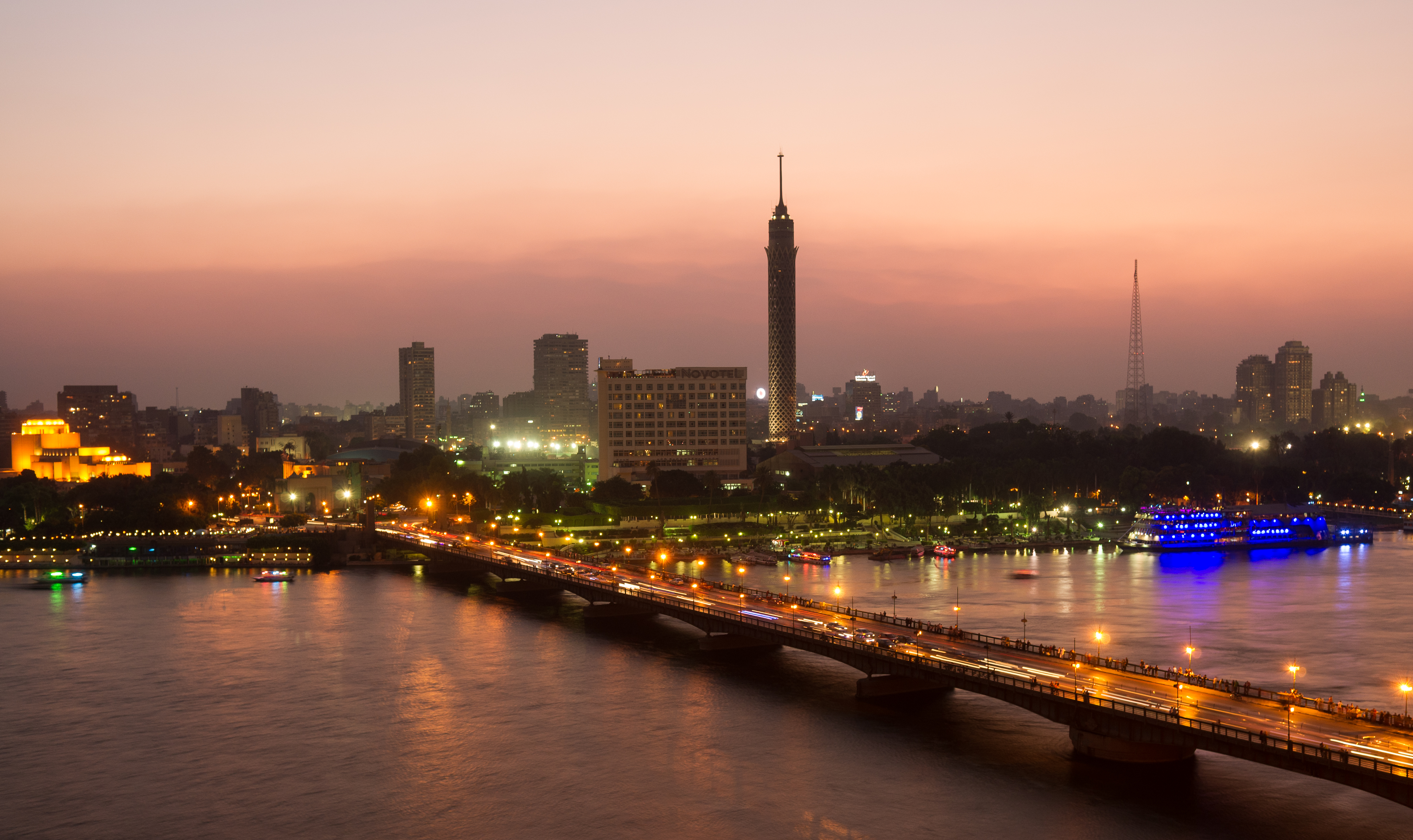 Late evening in Cairo: view of the Qasr al-Nil Bridge and the Cairo Tower at sunset.